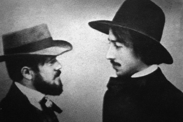 Bulgarian poet Dimcho Debelyanov (left) and Bulgarian painter Georgi Mashev (right)